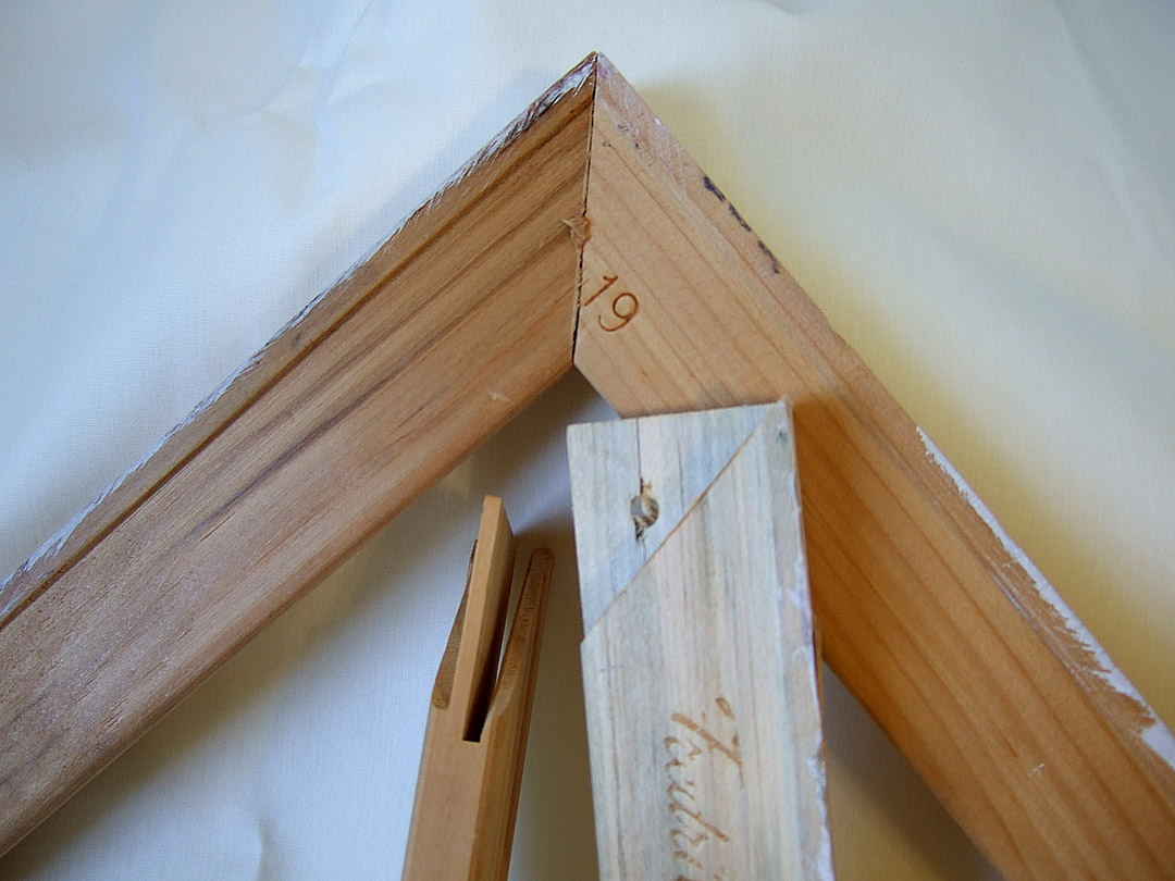 Stretcher bar fully assembled, and two unassembed bars displaying corner construction.